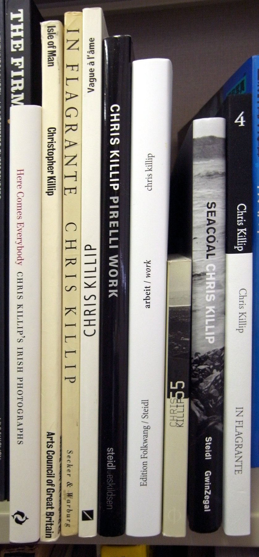 Spines of some photobooks by Chris Killip. (The black book [The Firm] at the far left and the blue book at the far right are not by him.)